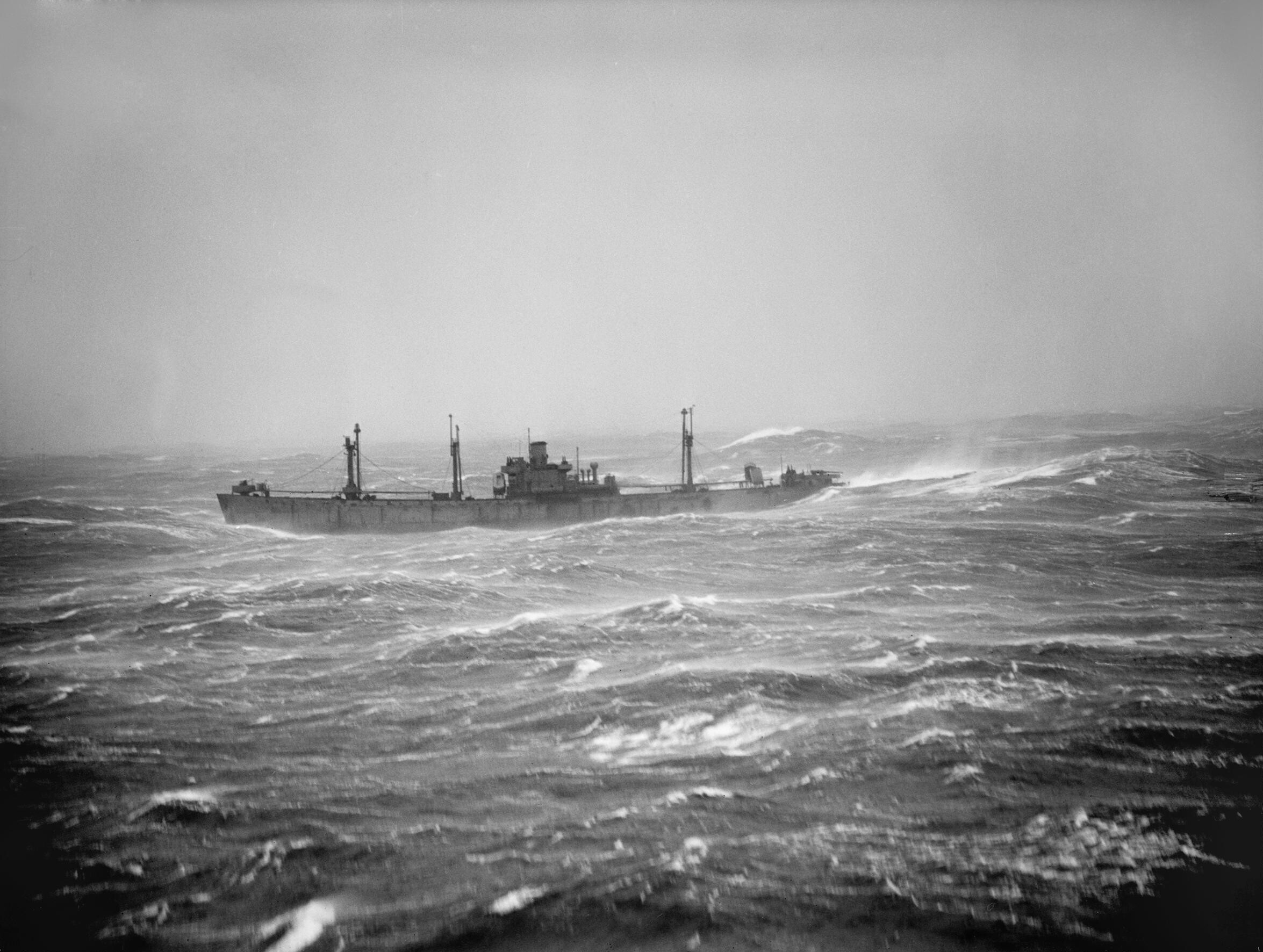 Convoys To Russia during the Second World War - Convoy Ra64, 17 - 28 February 1945 Homeward bound, a Liberty Ship in convoy RA64 sails through heavy seas in the Arctic Ocean.